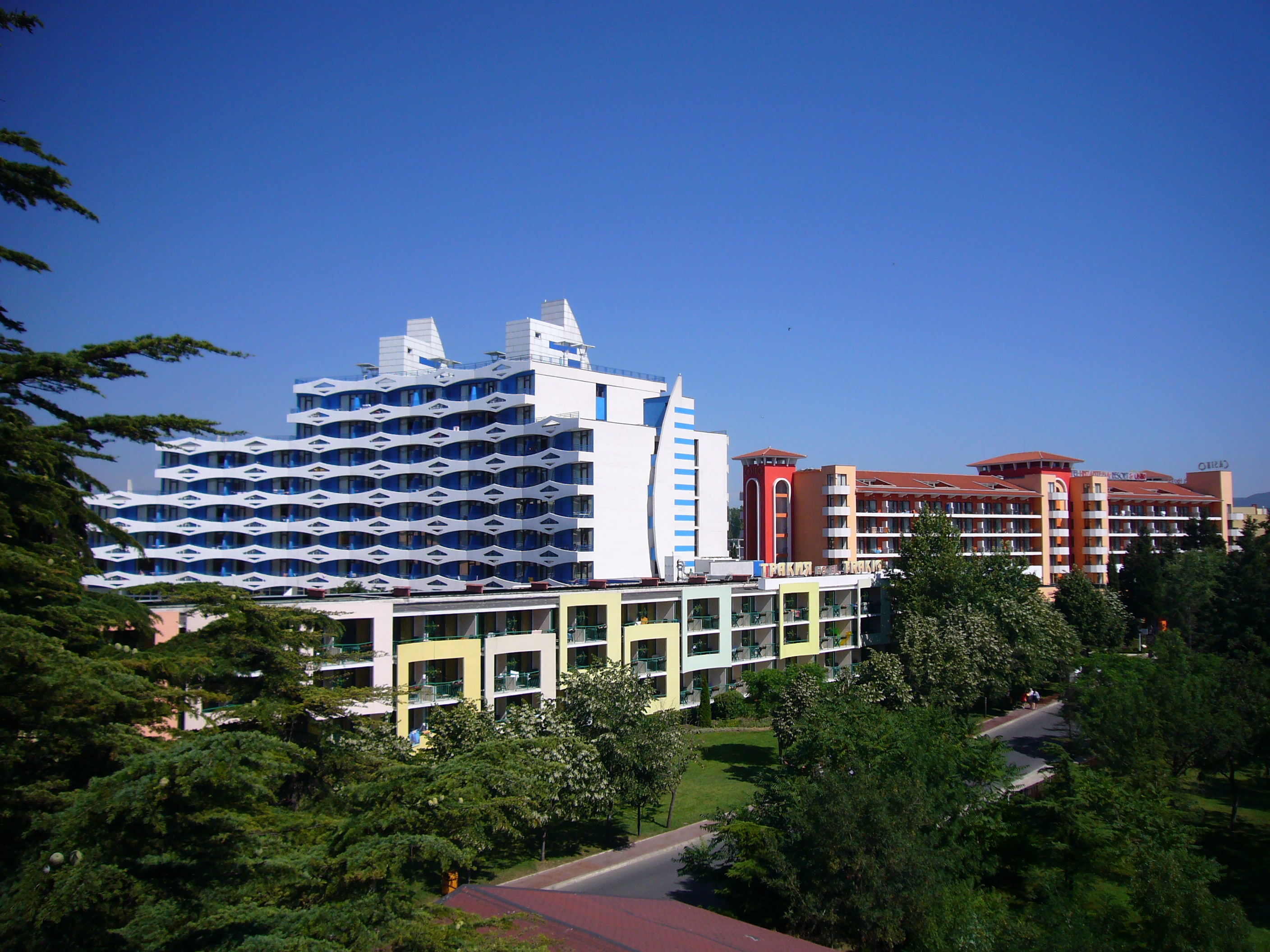 View from the Baikal Hotel (Sunny Beach-Bulgaria).